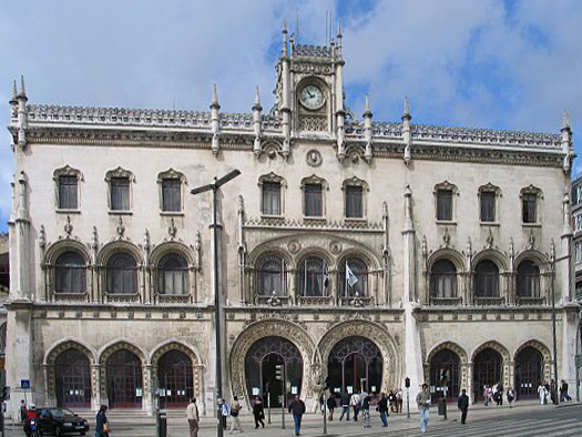 Rossio train station, Lisbon, Portugal